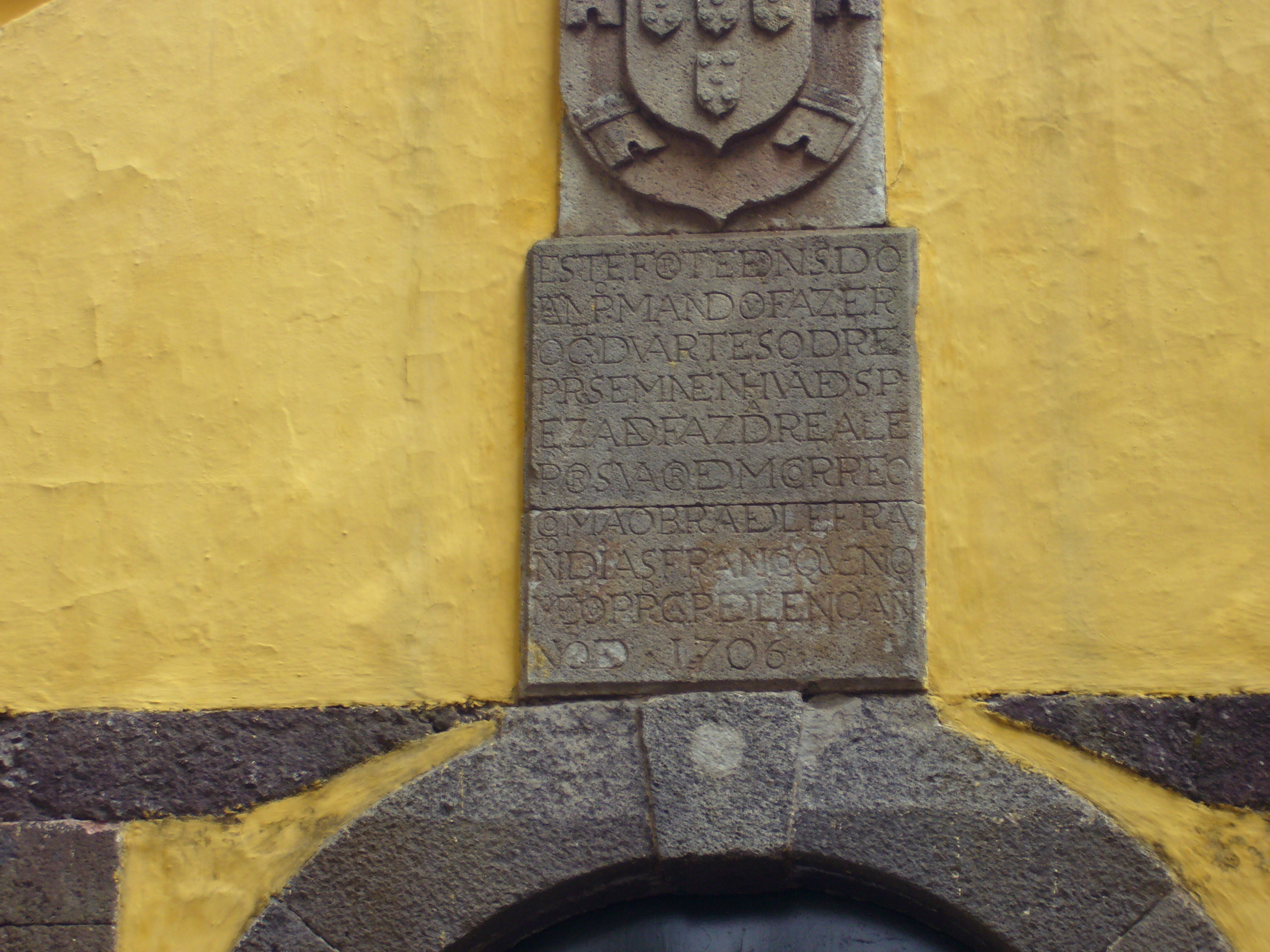 Coat of arms at the Forte do Amparo- Machico